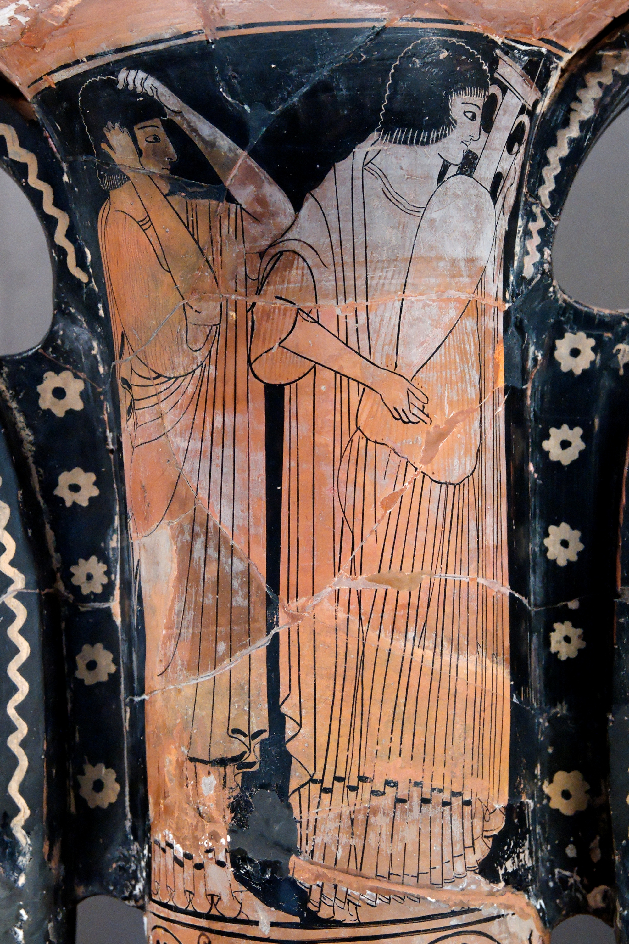 Two women mourning. Neck of an Attic red-figure loutrophoros, 500–490 BC. Most of the decoration was painted anew in modern times.